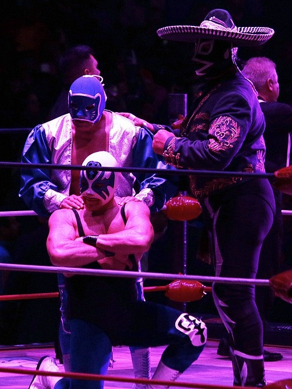 Viernes 30 de noviembre de 2018Arena México, ceremonia de develación de la placa conmemorativa por el reciente decreto de la Lucha Libre como Patrimonio Cultural Intangible de la Ciudad de México, estuvieron presentes autoridades del Consejo Mundial de Lucha Libre, y autoridades del gobierno de la CMDX, entre ellos Gabriela López Torres, coordinadora de Patrimonio Histórico Artístico y Cultural de la Secretaría de Cultura de la CDMX, además de invitados especiales.Fotografía: Tania Victoria/ Secretaría de Cultura CDMX